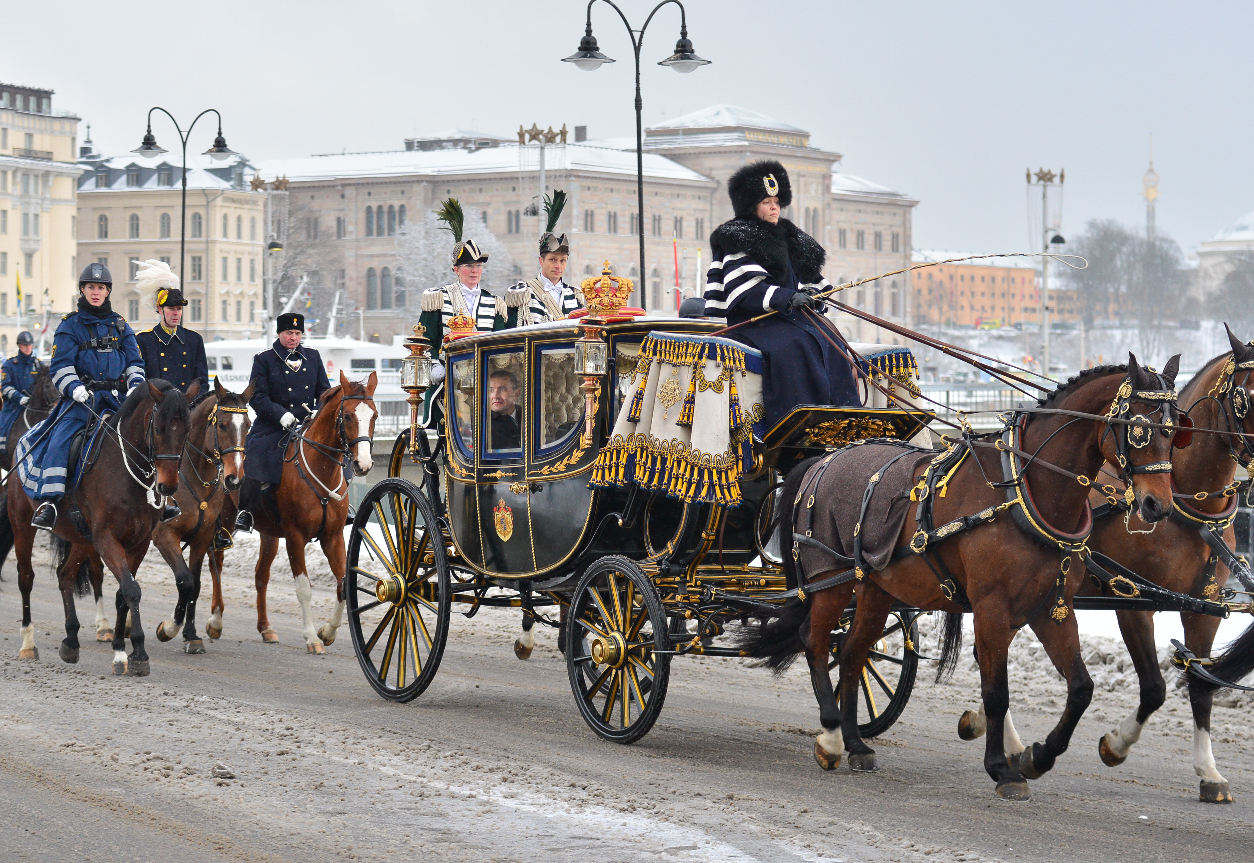 Islands president Gudni Thorlacius Jóhannesson on state visit in Sweden together with his wife Eliza Jean Reid in Stockholm on January 17, 2018.